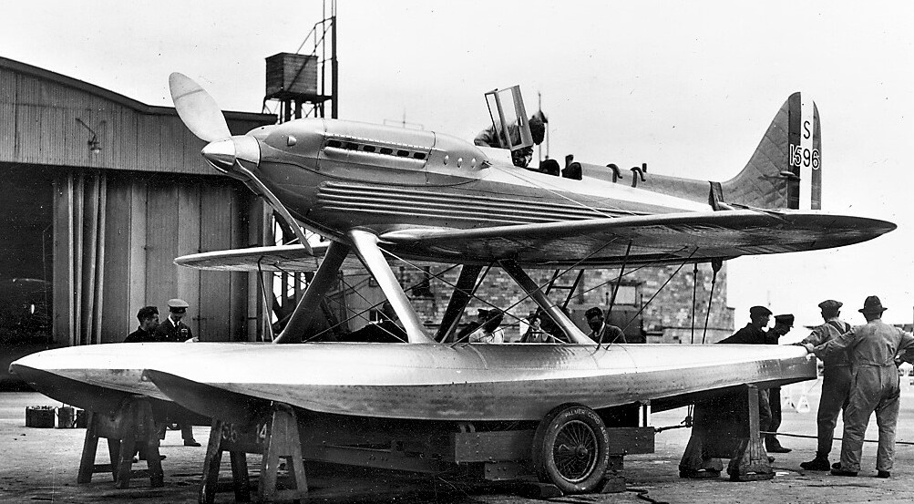 Supermarine S.6B seaplane, original image circa 1931.